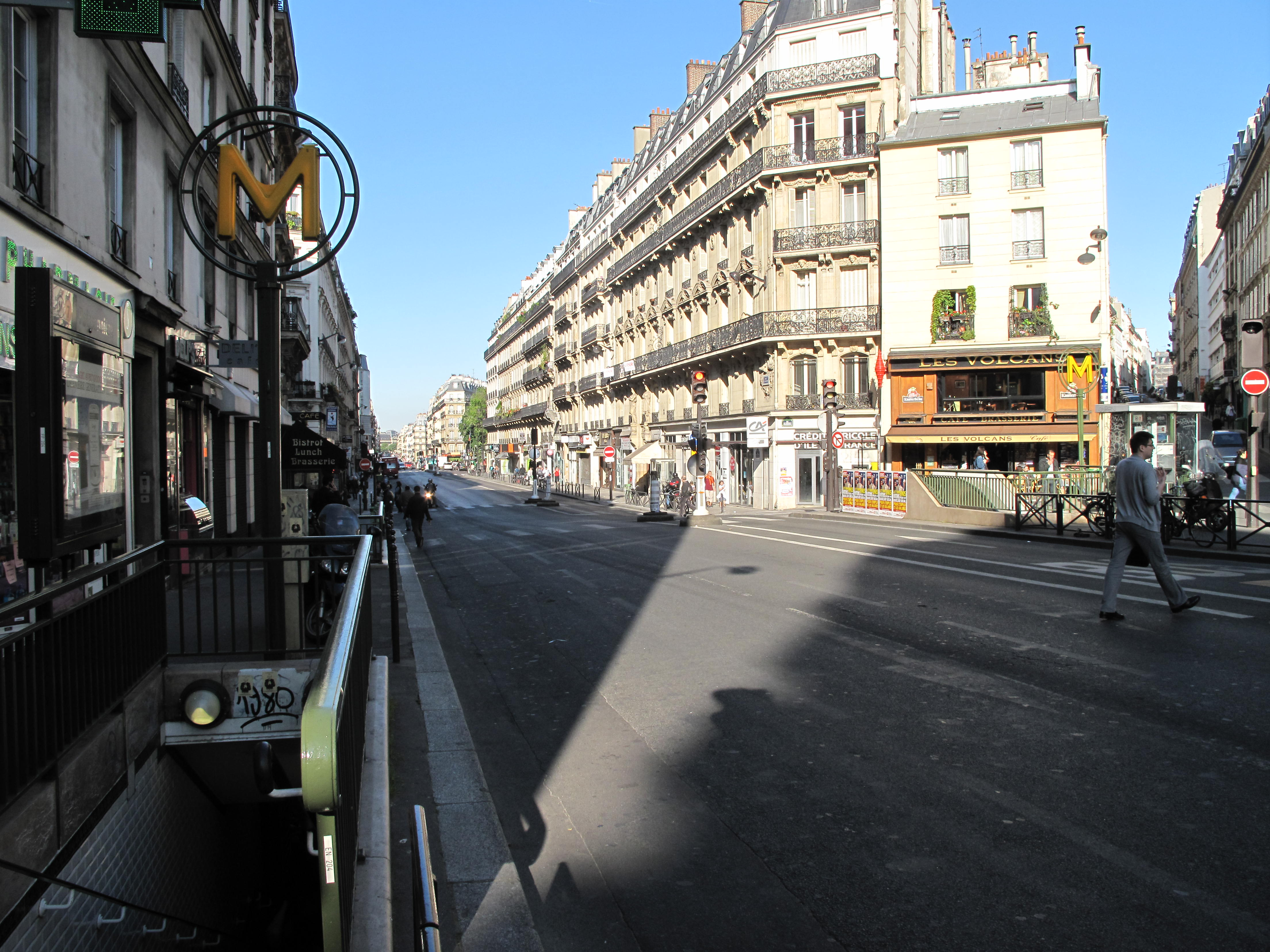 Rue Lafayette, Paris. Photo taken near the métro station Poissonnière. In the background, the Boulevard Haussmann